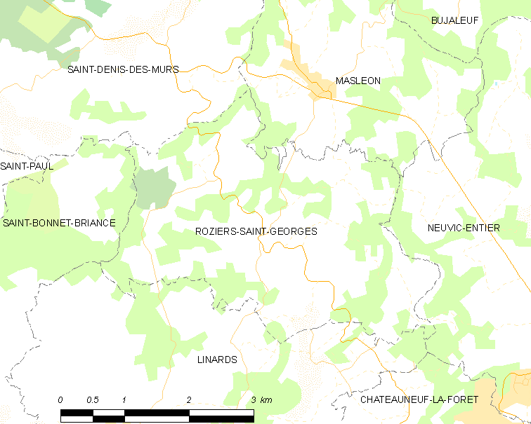 Map of French municipality Roziers-Saint-Georges